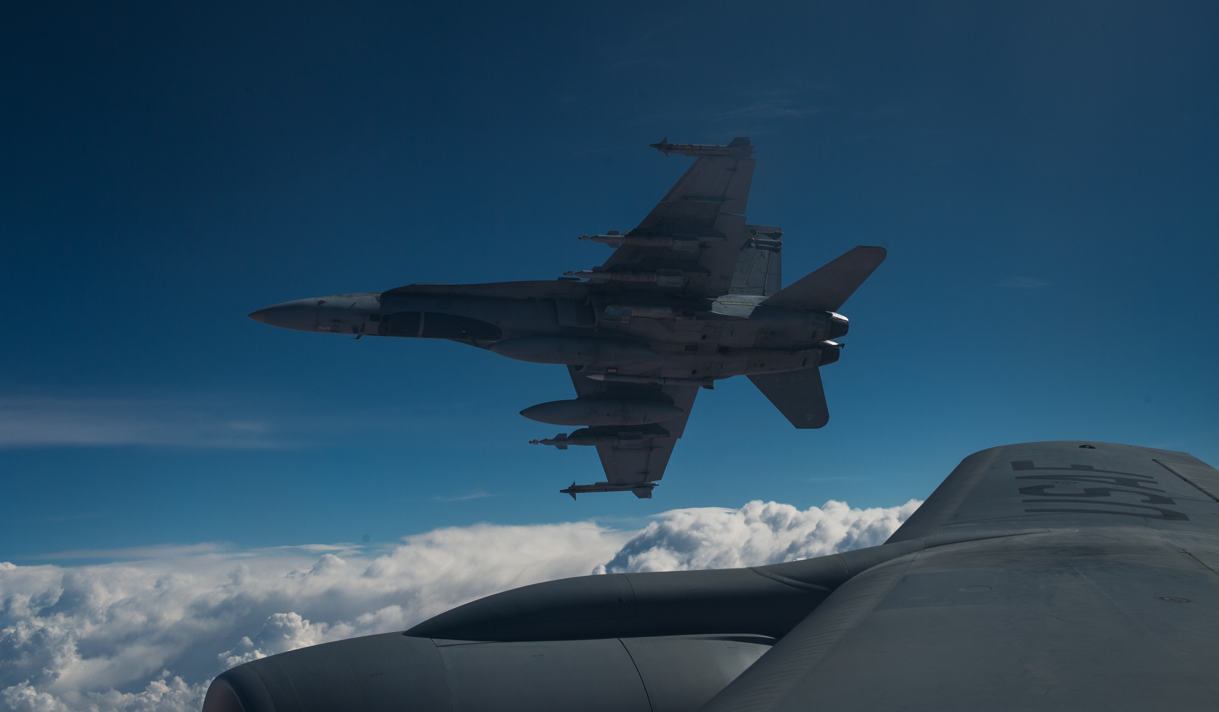 Royal Canadian Air Force CF-18 Hornets break away after refueling with a KC-135 Stratotanker assigned to the 340th Expeditionary Air Refueling Squadron, Oct. 30, 2014, over Iraq. This was the first Combat mission in the area of operations, supporting Operation Inherent Resolve.(U.S. Air Force Photo by Staff Sgt. Perry Aston/Released)